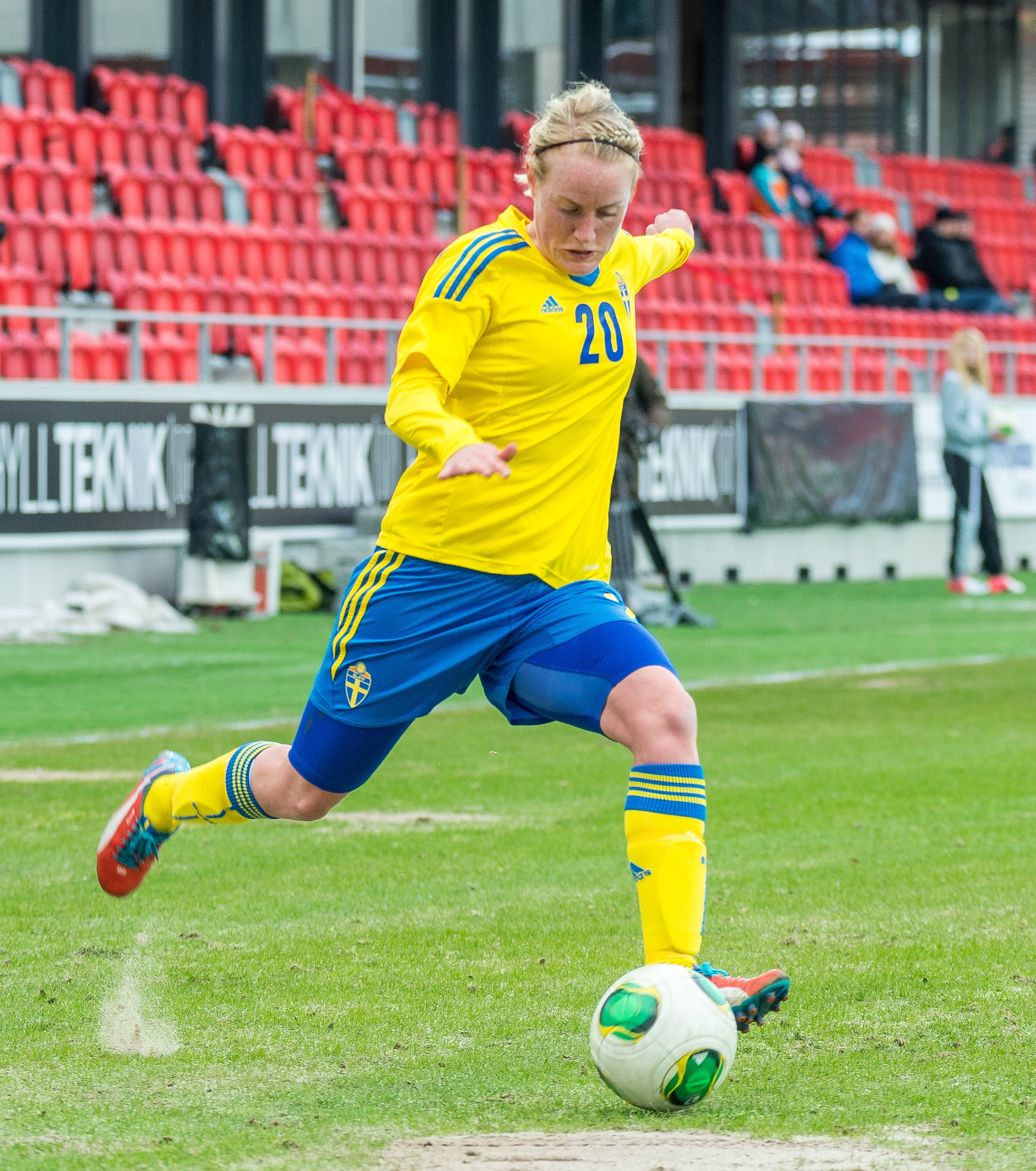 Swedish midfielder Marie Hammarström playing for the Swedish Women's National team in the 2-0 victory over Iceland at Myresjöhus Arena, 6 April 2013.